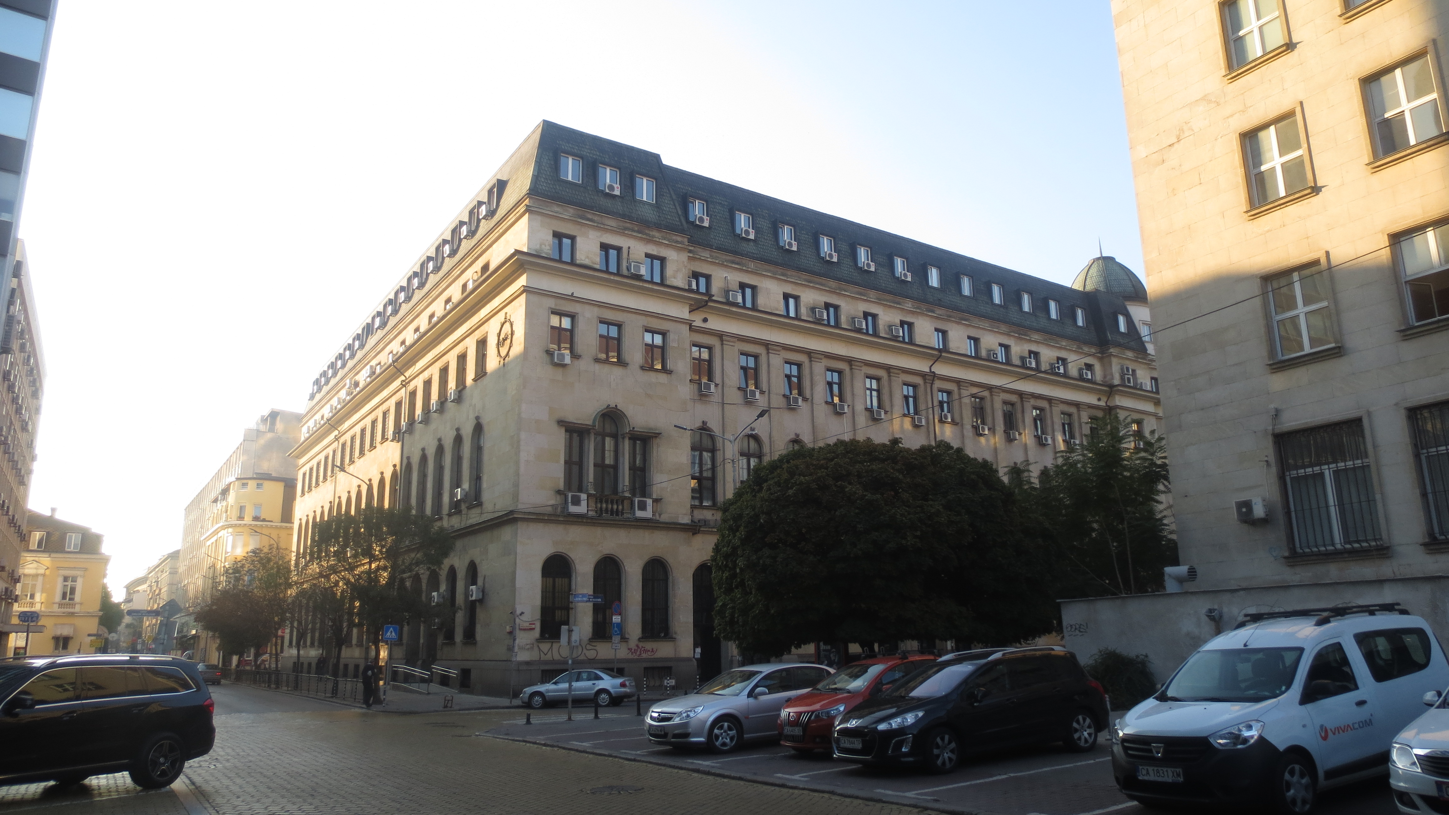 The Central Post Office in downtown Sofia, Bulgaria